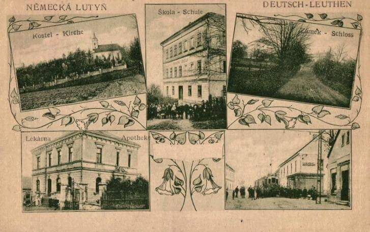 Historical postcard of Dolní Lutyně